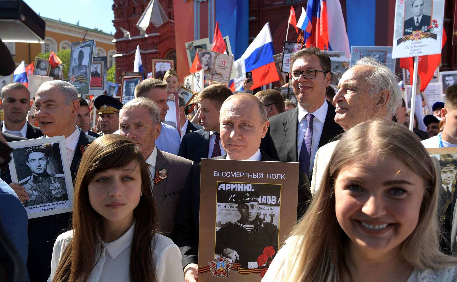 Immortal Regiment in Moscow (2018-05-09)